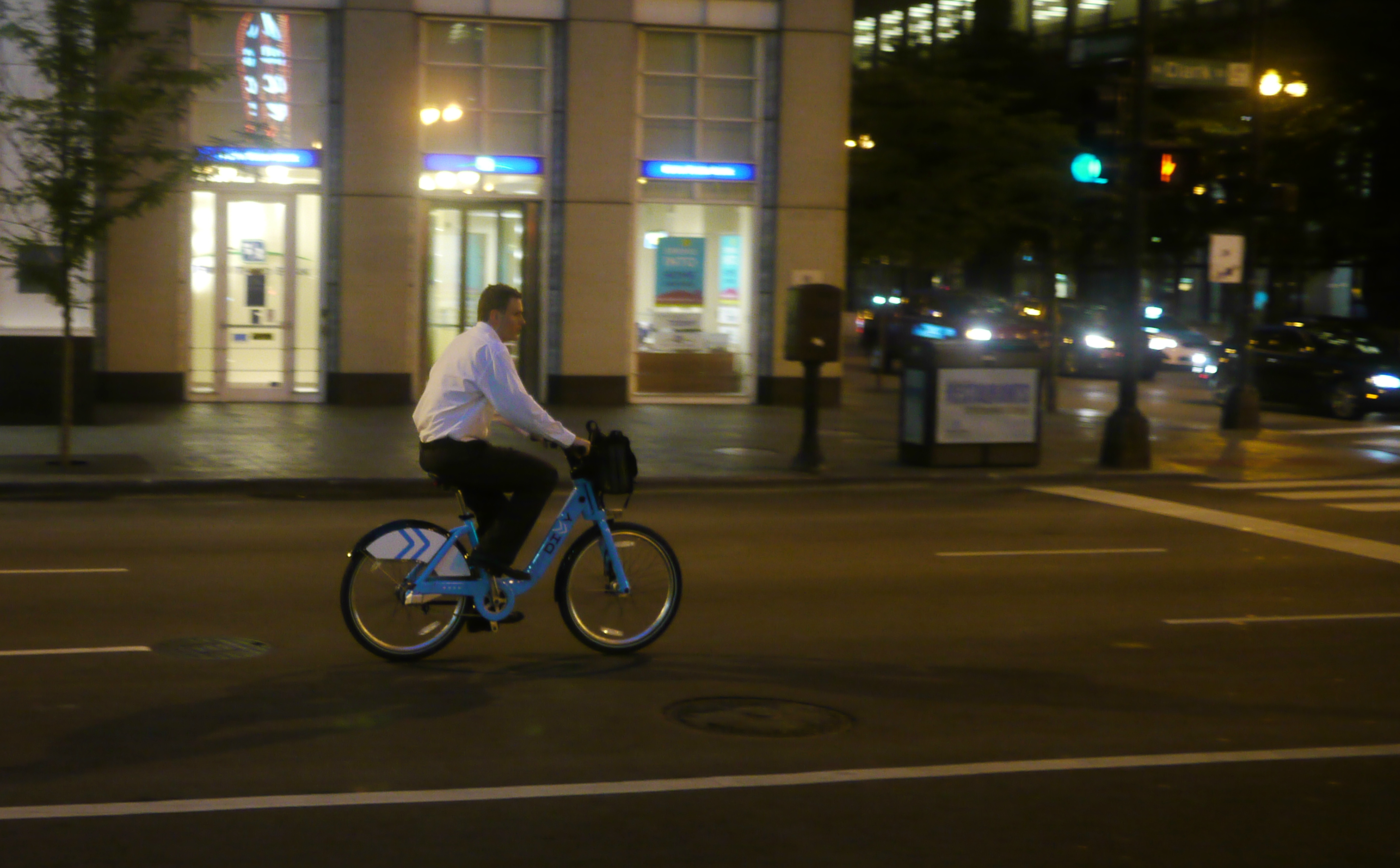 Man in suit riding a Divvy shared bike in Chicago